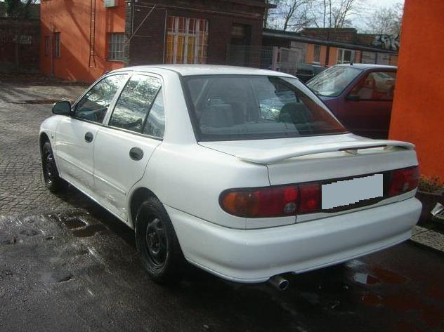 Mitsubishi Lancer fifth generation